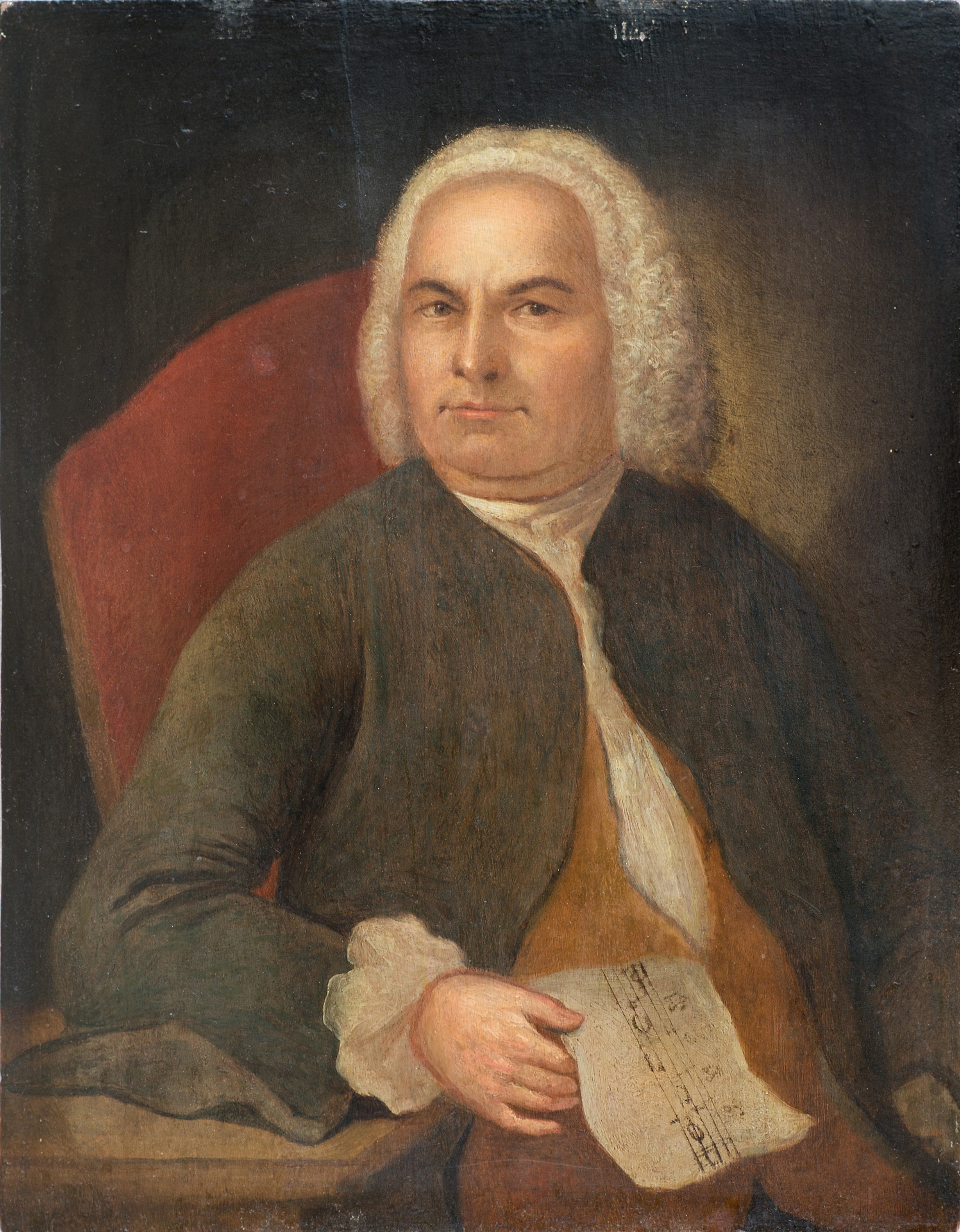 Painting of Johann Sebastian Bach by 'Gebel', before 1798.